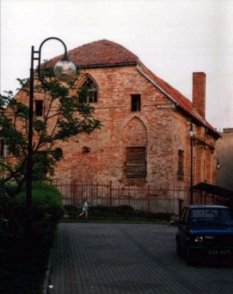 old Synagogue in Kwidzyn